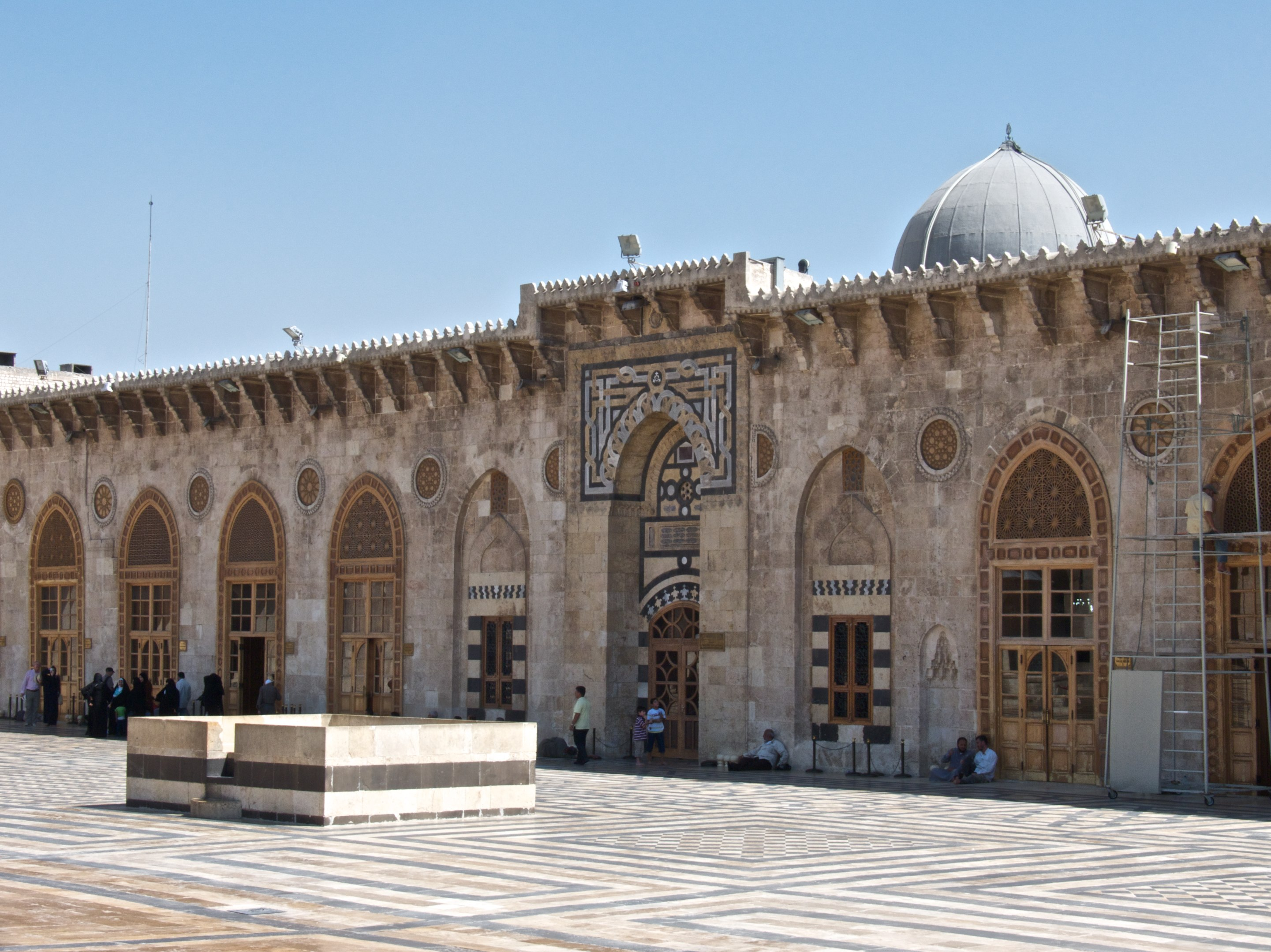 Aleppo Great Mosque, internal view